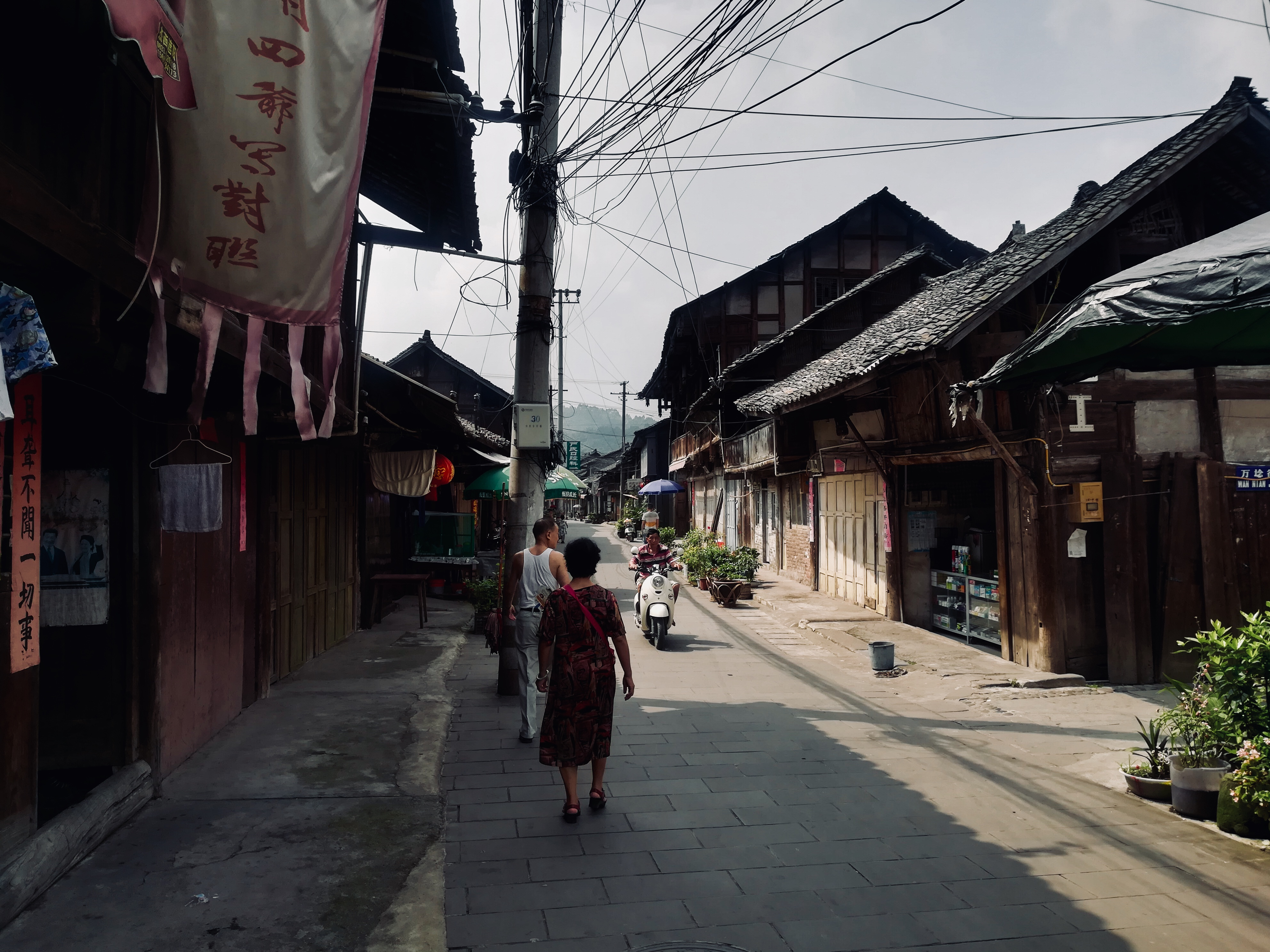 Luomu old town in Sichuan, China